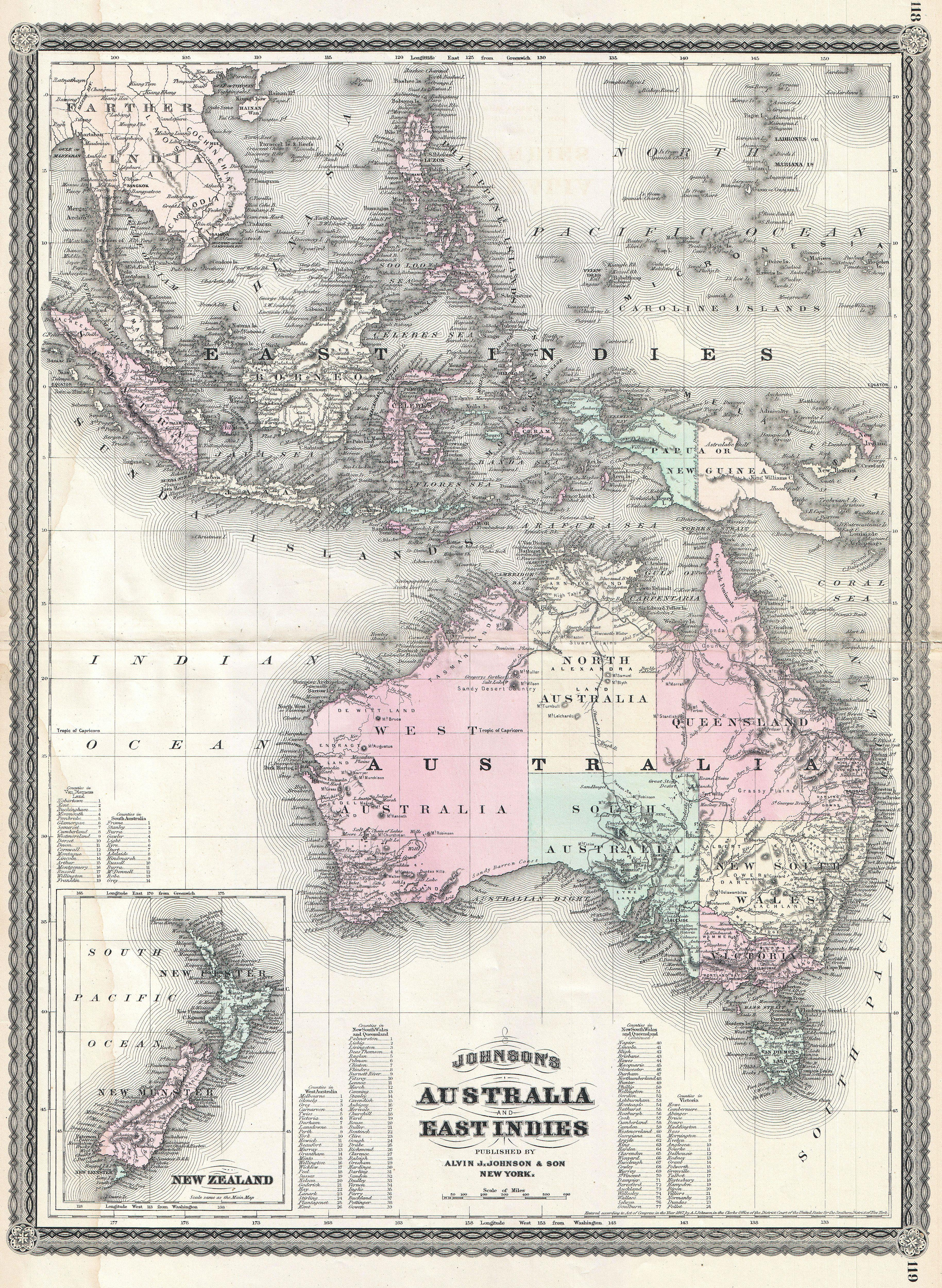 This is A. J. Johnson’s 1870 map of Australia, the East Indies and Southeast Asia. Covers from Modern day Thailand and Vietnam south to include all of the East Indies, the Philippines, New Guinea and the continent of Australia. Offers superb detail with numerous islands, states, cities and geographical areas labeled and color coded. Shows an advanced state of Australian exploration noting the explorations of Burke, Wills, Stuart and Gregory. An inset in the lower left quadrant details New Zealand. Text in the lower quadrants notes counties in each province of Australia. Features the spirograph border common to Johnson’s atlas work in 1870. This map appeared only in the 1867 – 1870 run of Johnson’s atlases and is consequently among Johnson’s more uncommon maps. Prepared by A. J. Johnson for publication as page nos. 118 -119 in the rare 1870 edition of his New Illustrated Atlas… Dated and copyrighted, “Entered according to Act of Congress in the Year of 1867, by A. J. Johnson in the Clerks Office of the District Court of the United States for the Southern District of New York.